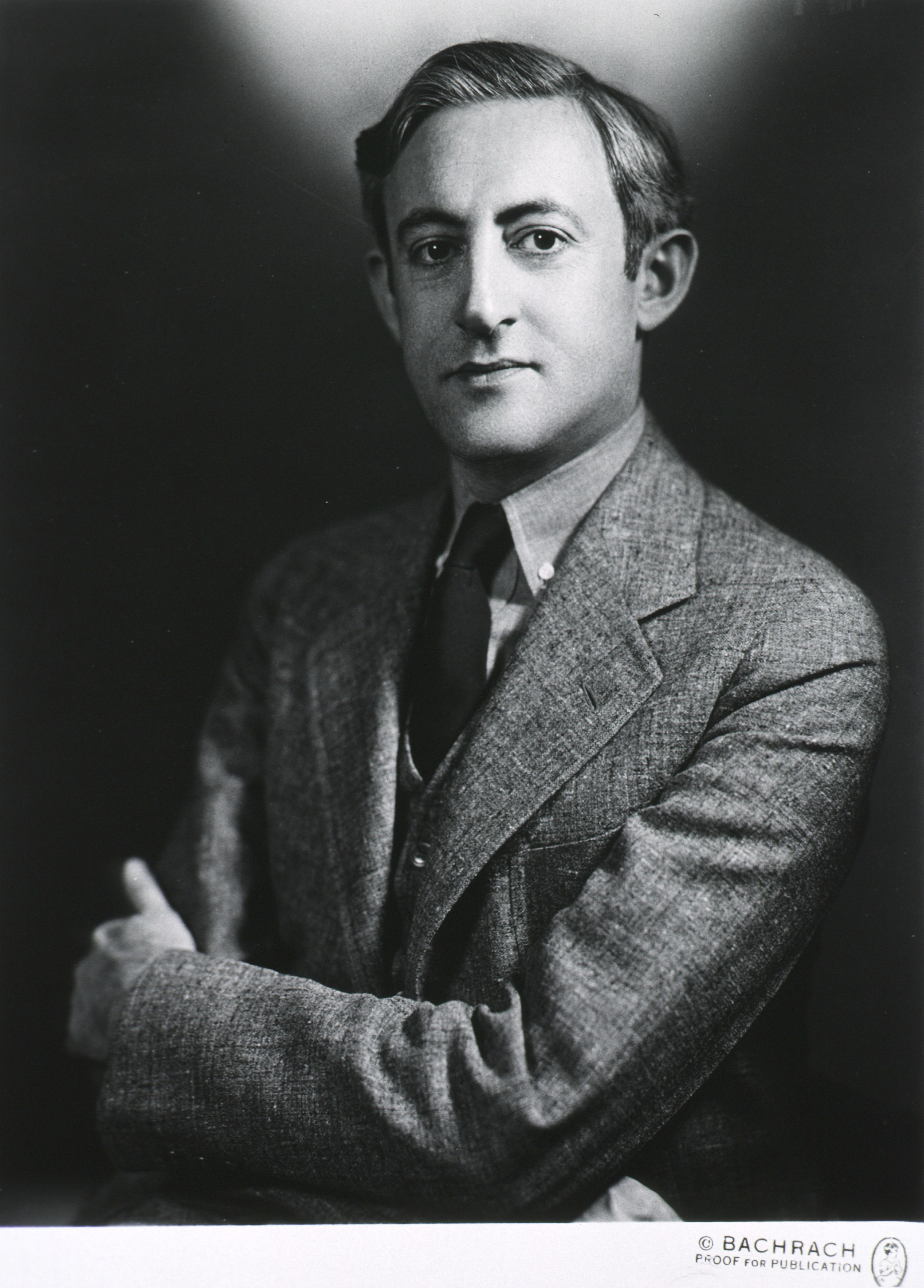 Portrait